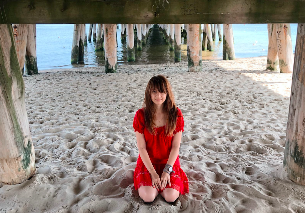 Sylwia Stano